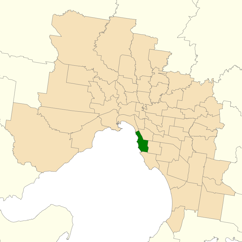 Location of the Victorian electoral district of Brighton (dark green) in Greater Melbourne